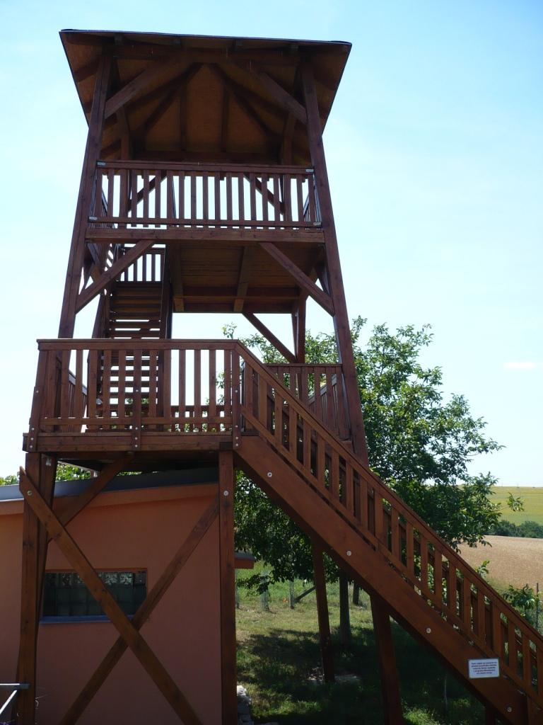 Observation Tower Johanka